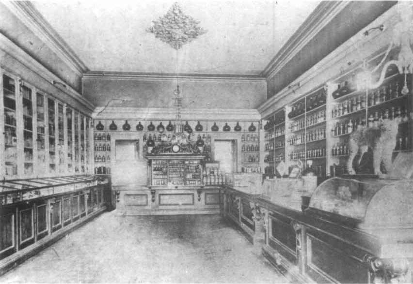 Interior of Randall’s Drug Store, now the Niagara Apothecary, a pharmacy museum and National Historic Site of Canada.